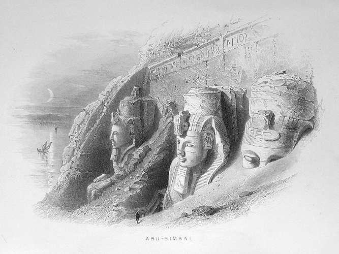 The large Abu Simbel temple in the 1850s, covered by sand.